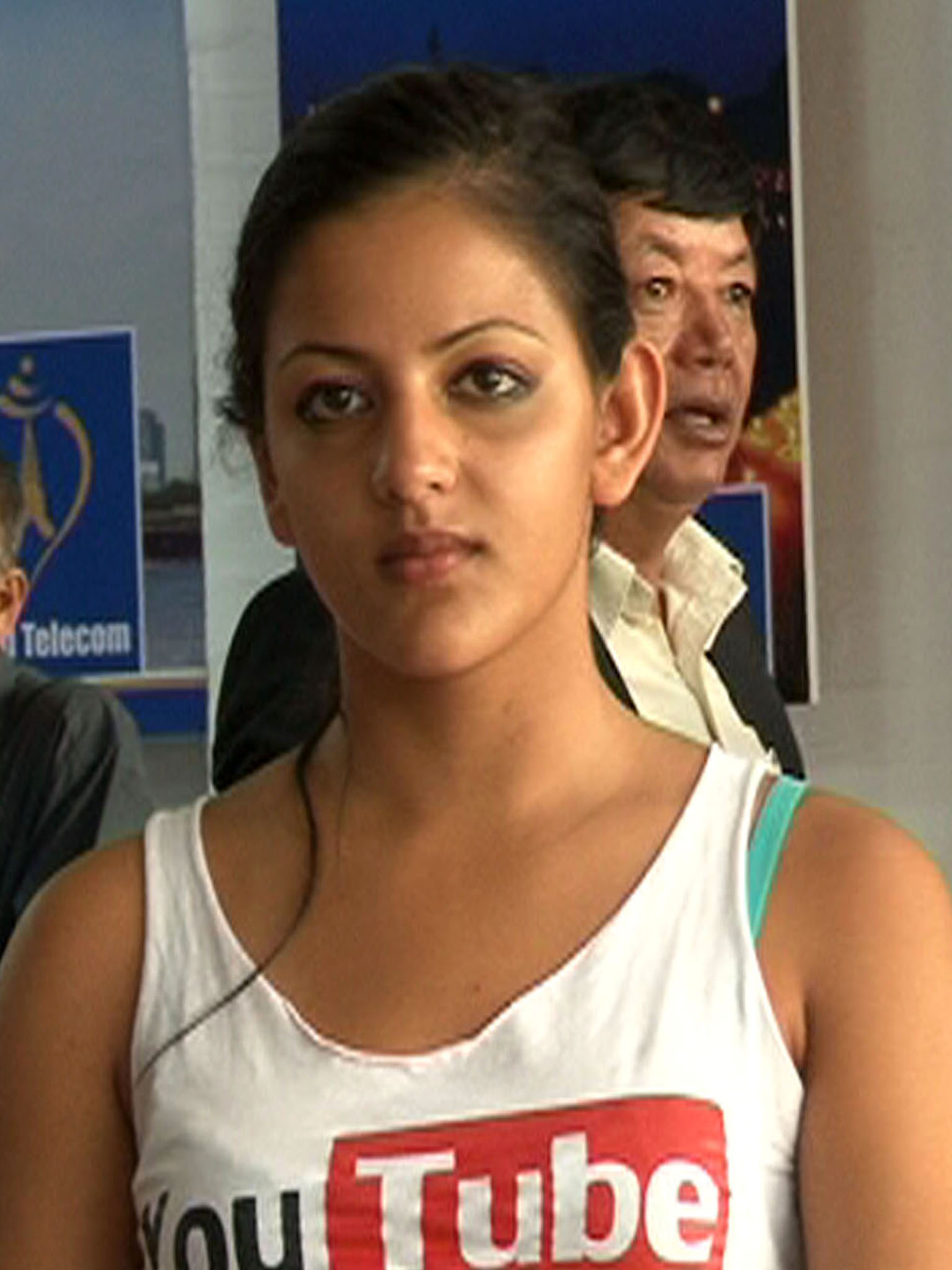 Nepali swimmer.